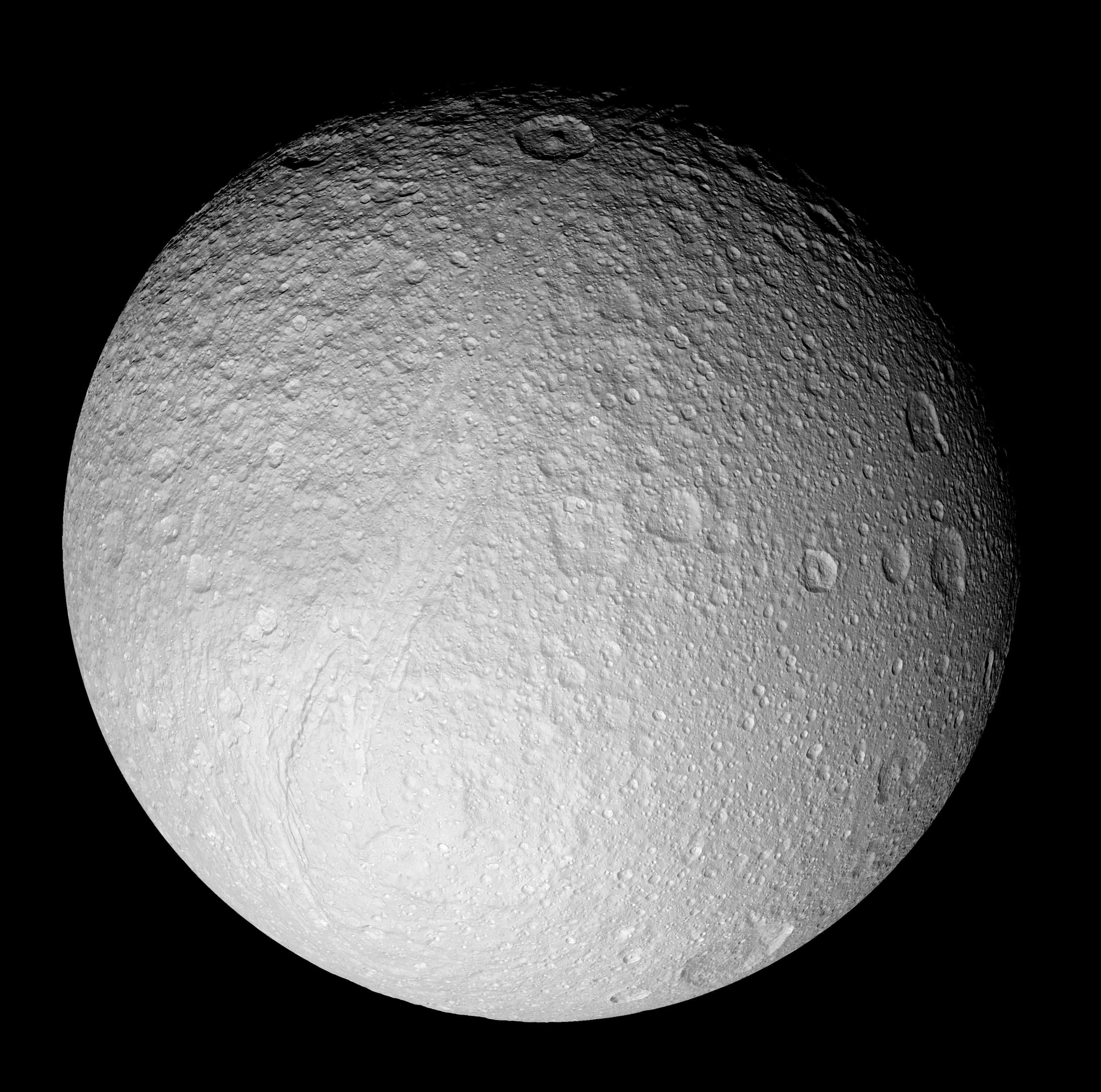 With this full-disk mosaic, Cassini presents the best view yet of the south pole of Saturn's moon Tethys. The giant rift Ithaca Chasma cuts across the disk. Much of the topography seen here, including that of Ithaca Chasma, has a soft, muted appearance. It is clearly very old and has been heavily bombarded by impacts over time. Many of the fresh-appearing craters (ones with crisp relief) exhibit unusually bright crater floors. The origin of the apparent brightness (or "albedo") contrast is not known. It is possible that impacts punched through to a brighter layer underneath, or perhaps it is brighter because of different grain sizes or textures of the crater floor material in comparison to material along the crater walls and surrounding surface. The moon's high southern latitudes, seen here at the bottom, were not imaged by NASA's Voyager spacecraft during their flybys of Tethys 25 years ago. The mosaic is composed of nine images taken during Cassini's close flyby of Tethys (1,071 kilometers, or 665 miles across) on Sept. 24, 2005, during which the spacecraft passed approximately 1,500 kilometers (930 miles) above the moon's surface. This view is centered on terrain at approximately 1.2 degrees south latitude and 342 degrees west longitude on Tethys. It has been rotated so that north is up. The clear filter images in this mosaic were taken with the Cassini spacecraft narrow-angle camera at distances ranging from 71,600 kilometers (44,500 miles) to 62,400 kilometers (38,800 miles) from Tethys and at a Sun-Tethys-spacecraft, or phase, angle of 21 degrees. The image scale is 370 meters (1,200 feet) per pixel.